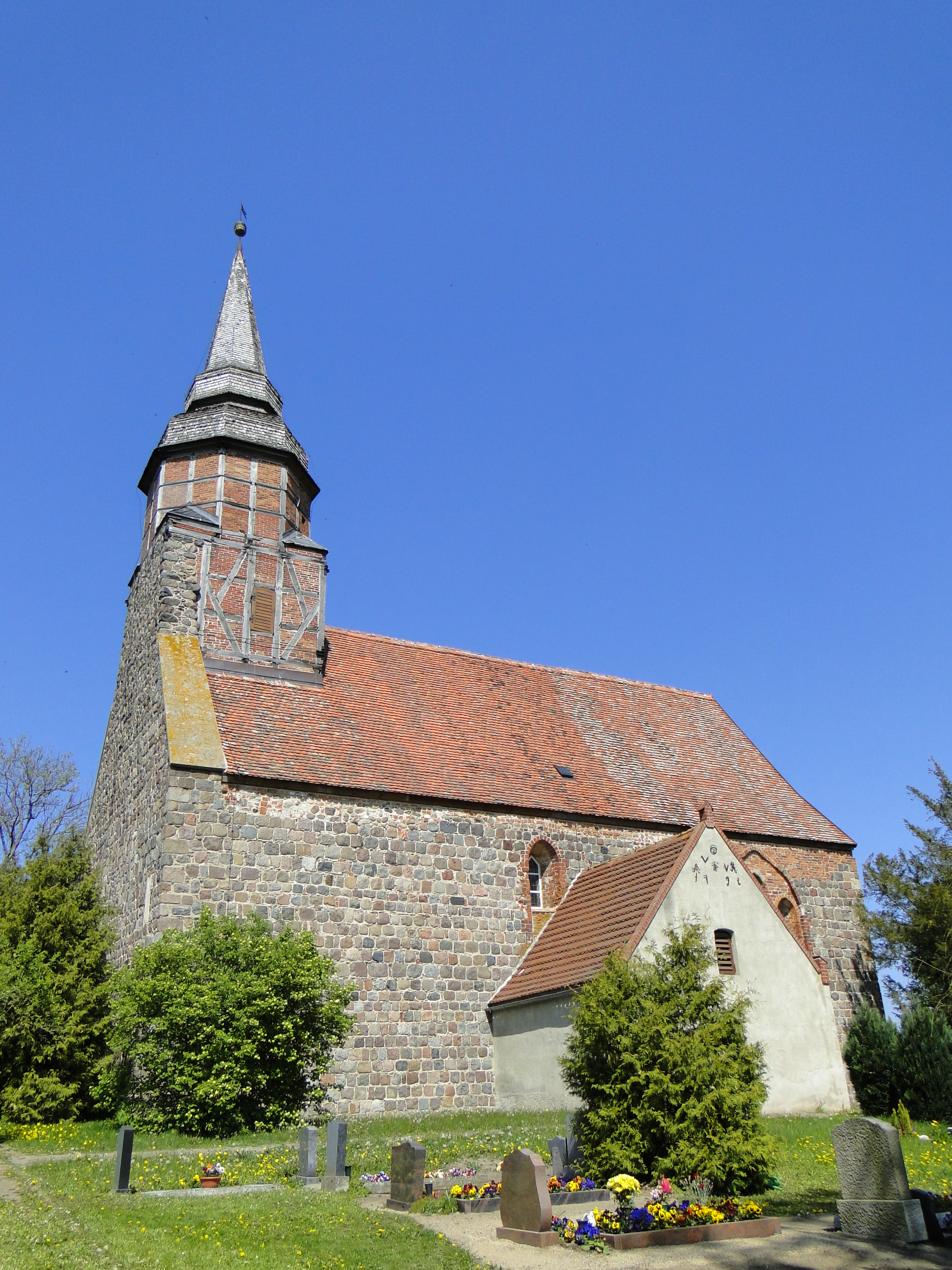 Church in Helpt, district Mecklenburg-Strelitz, Mecklenburg-Vorpommern, Germany